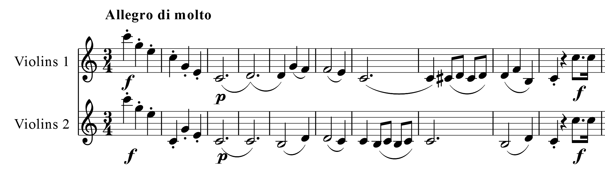 Joseph Haydn, Symphony No. 56, first movement, bar 1-10